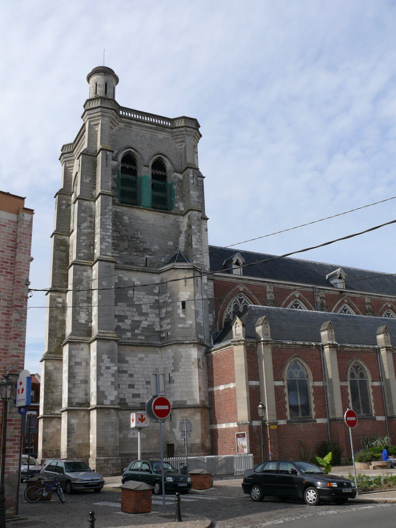 Our Lady of the Visitation's church in Lomme (Lille, Nord, France).